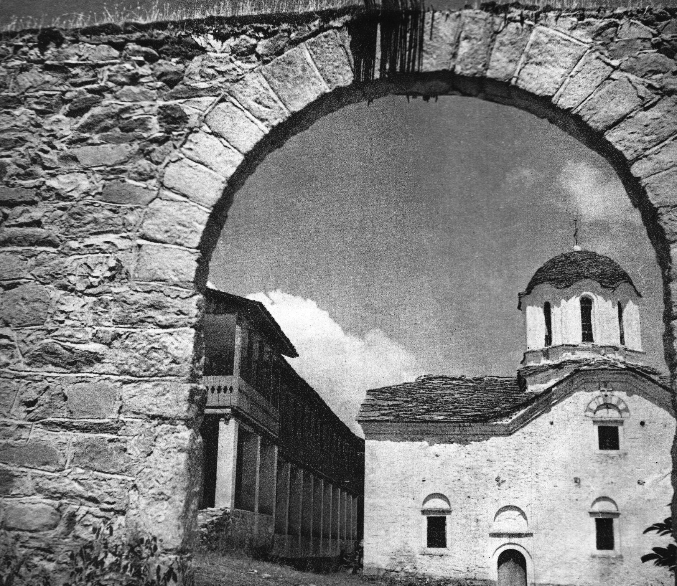 Bukovo Monastery, near Bitola, before 1950 This media file is produced by Wikipedian in Residence in Category:Wikipedian in Residence at DARM in 2016.